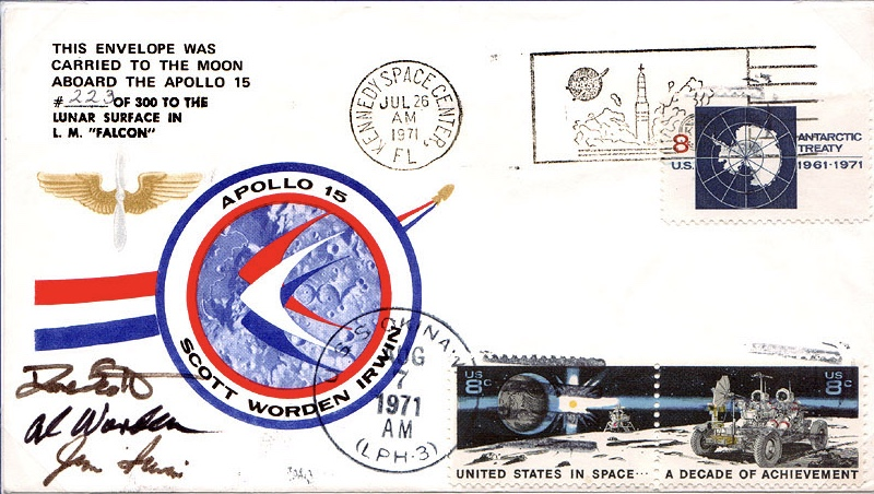 An original Apollo 15 postal cover flown to the lunar surface by Dave Scott, Jim Irwin and Al Worden in 1971.